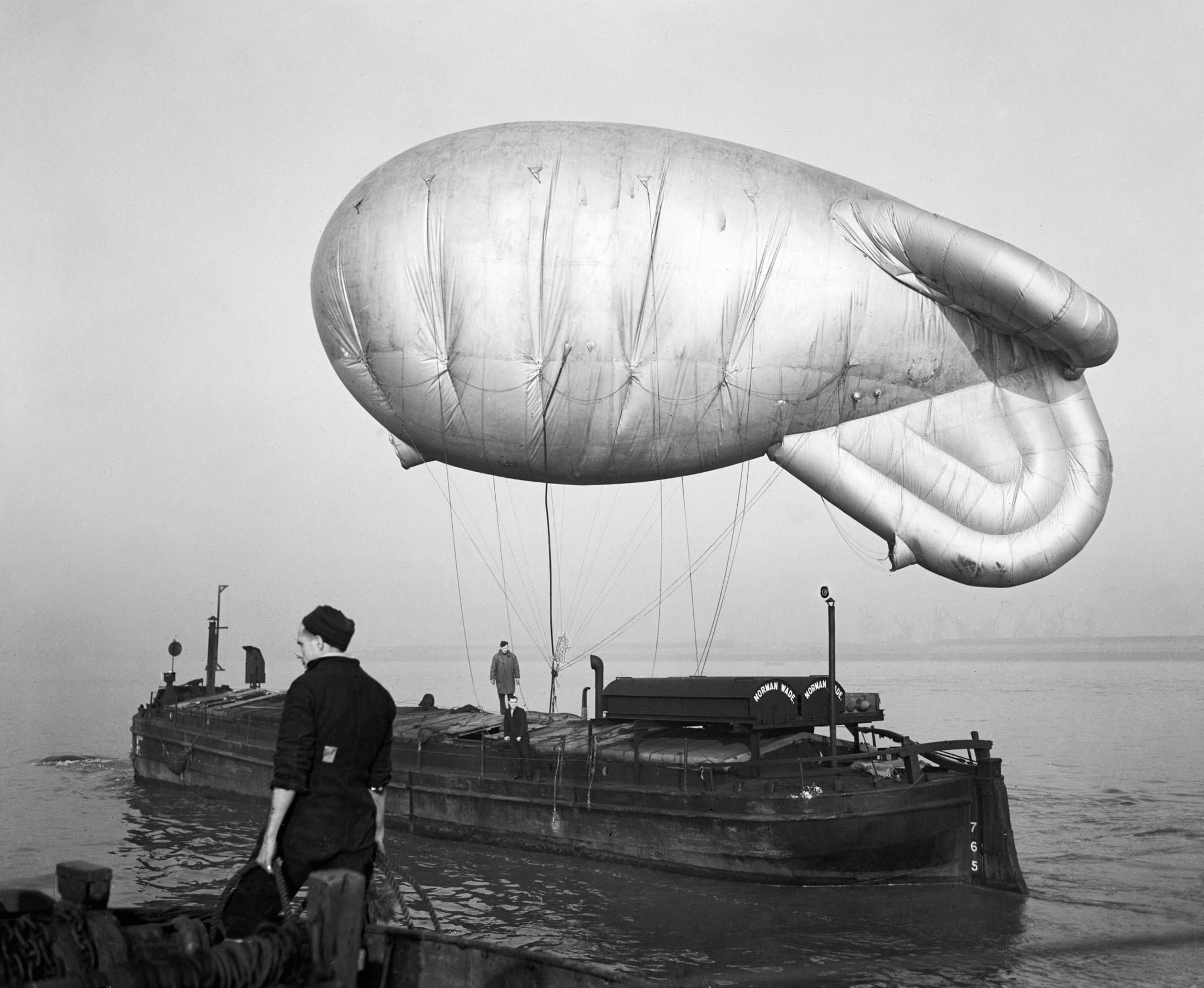 A kite balloon tethered to the balloon barge NORMAN WADE on the River Humber, at No. 17 Balloon Centre at Sutton-on-Hull in Yorkshire, January 1943. A kite balloon tethered to the balloon barge NORMAN WADE on the River Humber, ready to be taken ashore for inspection and maintenance at No. 17 Balloon Centre, Sutton-on-Hull, Yorkshire.